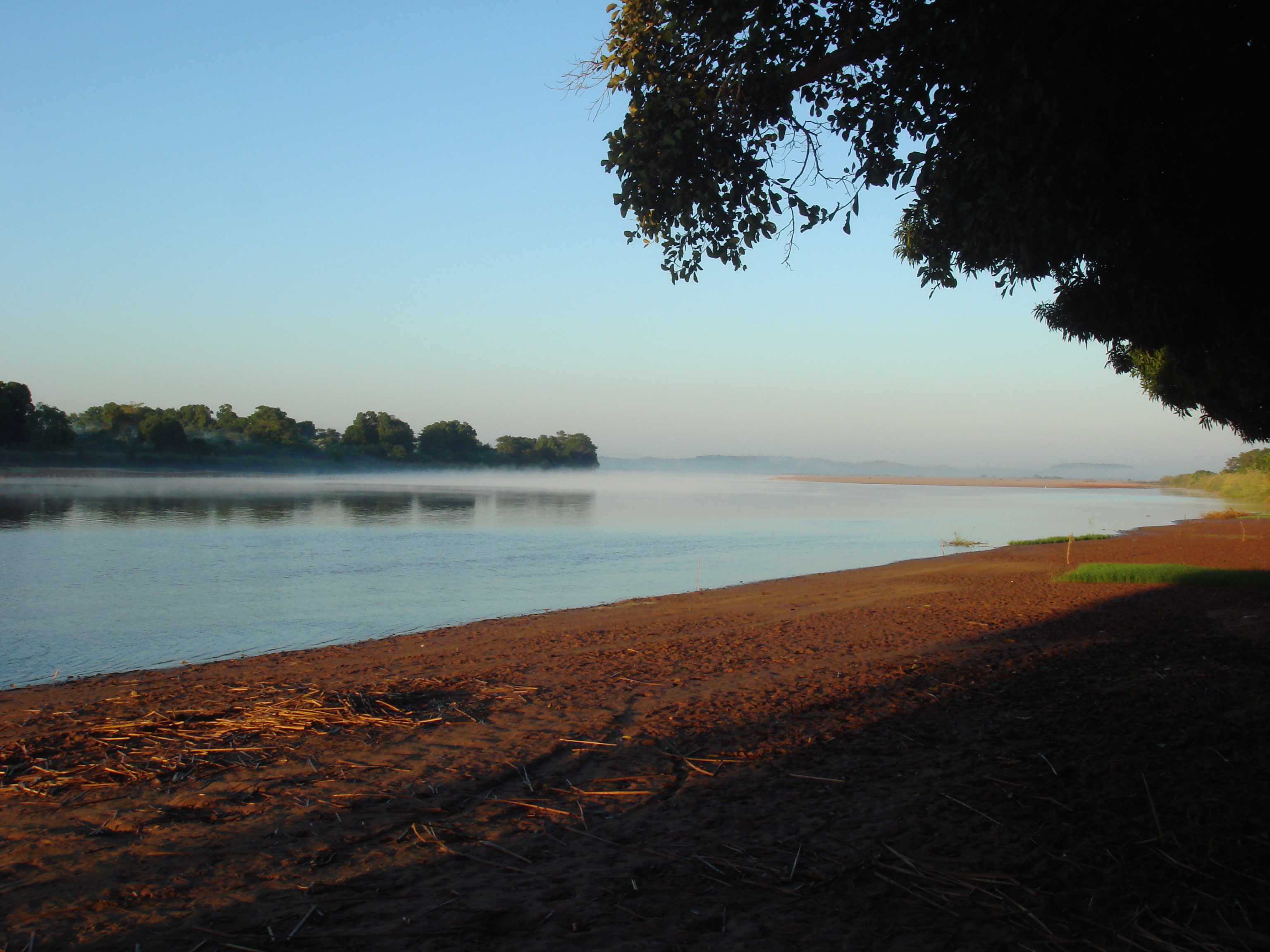 Manambolo river at dawn, Tsingy de Bemaraha Strict Nature Reserve, Madagascar